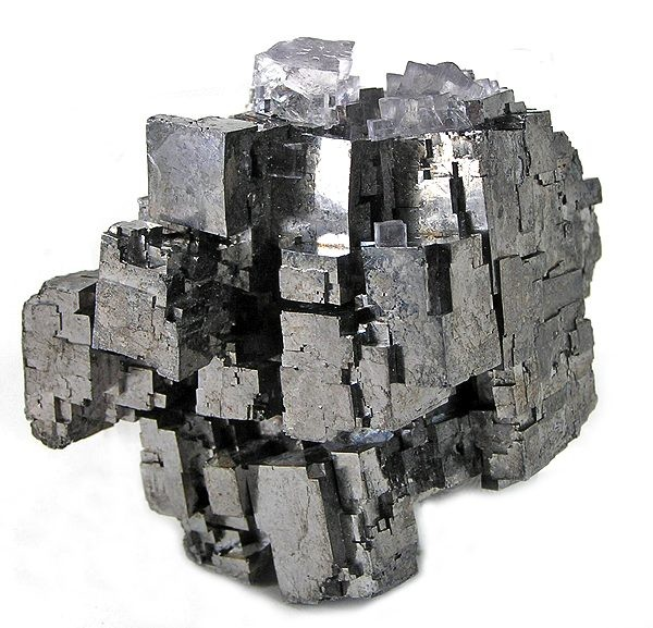 Galena, Fluorite Locality: Elmwood mine, Carthage, Central Tennessee Ba-F-Pb-Zn District, Smith County, Tennessee, USA (Locality at ) A fantastic galena with complex, architectural stepped form, a floater with no contacts - with some little cubes of light purple fluorite on it adding to the attraction. 5.6 x 5.2 x 4.8 cm This Photo was Photo of the Day - 28th Jul 2006